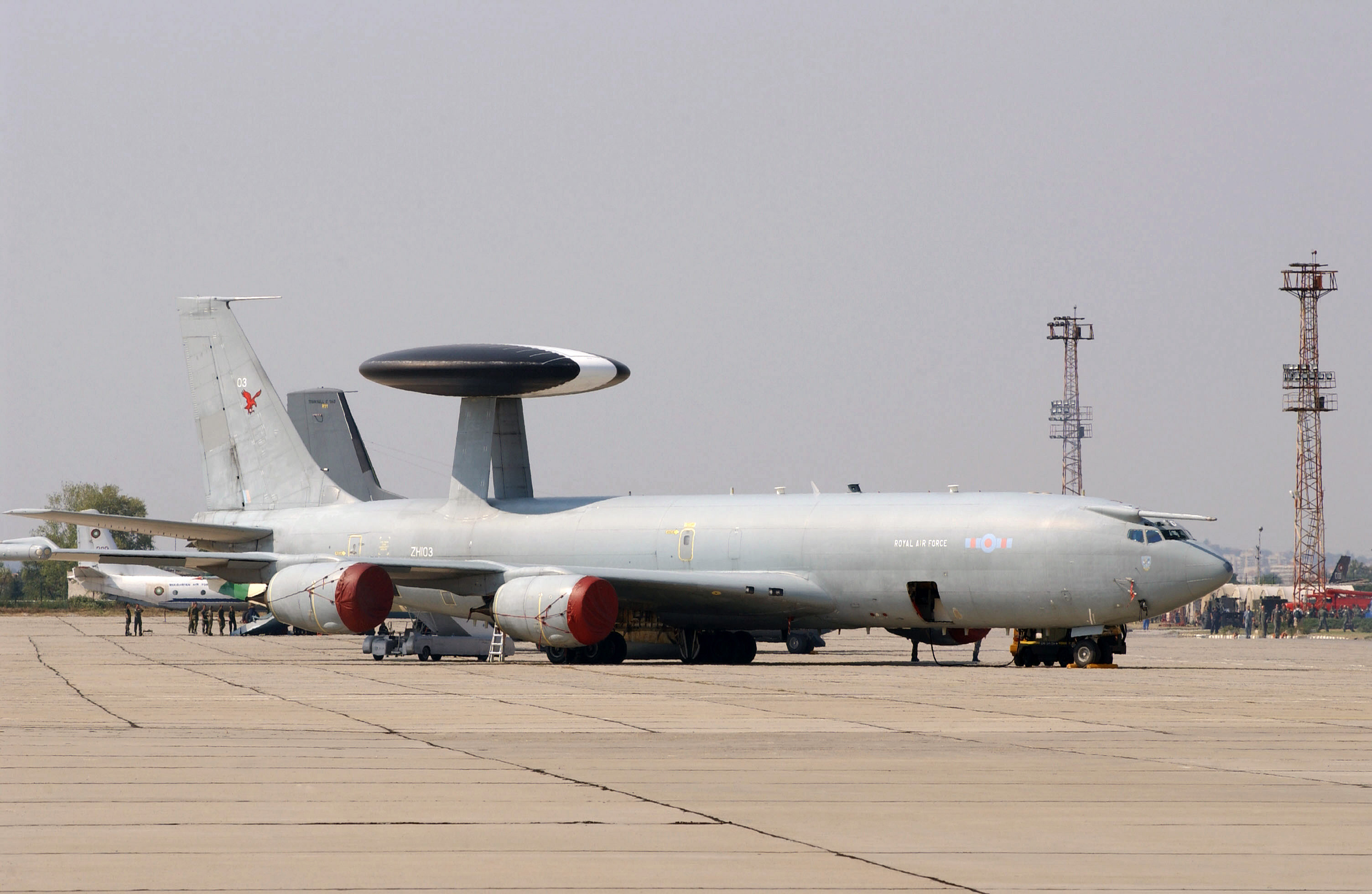 An Boeing Sentry AEW (E-3 Sentry AWACS) at Ignatievo Air Base, in Bulgaria (BG), for this years Partnership for Peace exercise Cooperative Key 2003, is provided by the Royal Air Force.